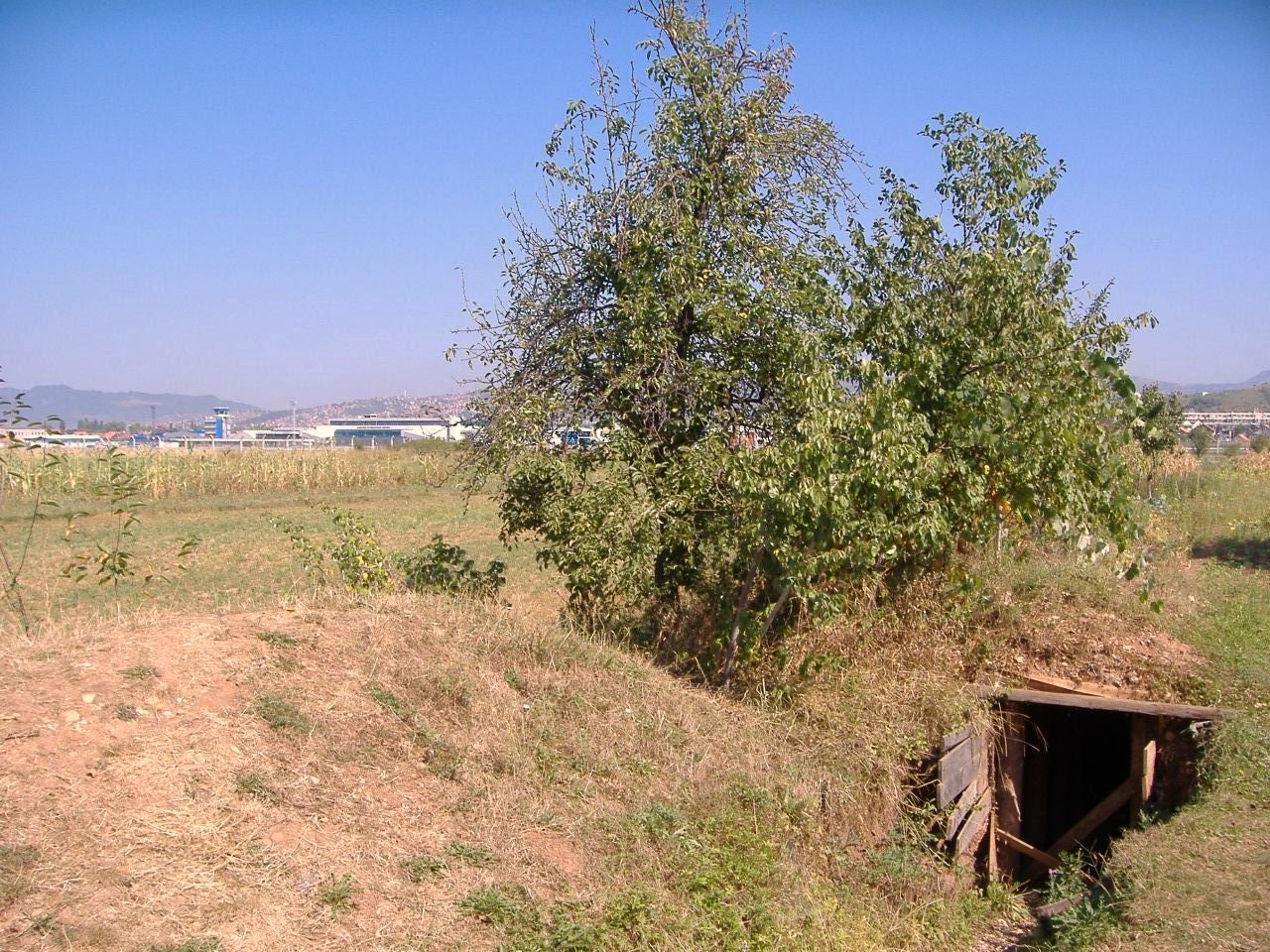 And the end of history ends here. Or maybe this is where history starts again. Whatever. Sad. Read about it here: That's the airport in the background. The tunnell extended under it for 800m. Only way in and out of the city for 4 years.